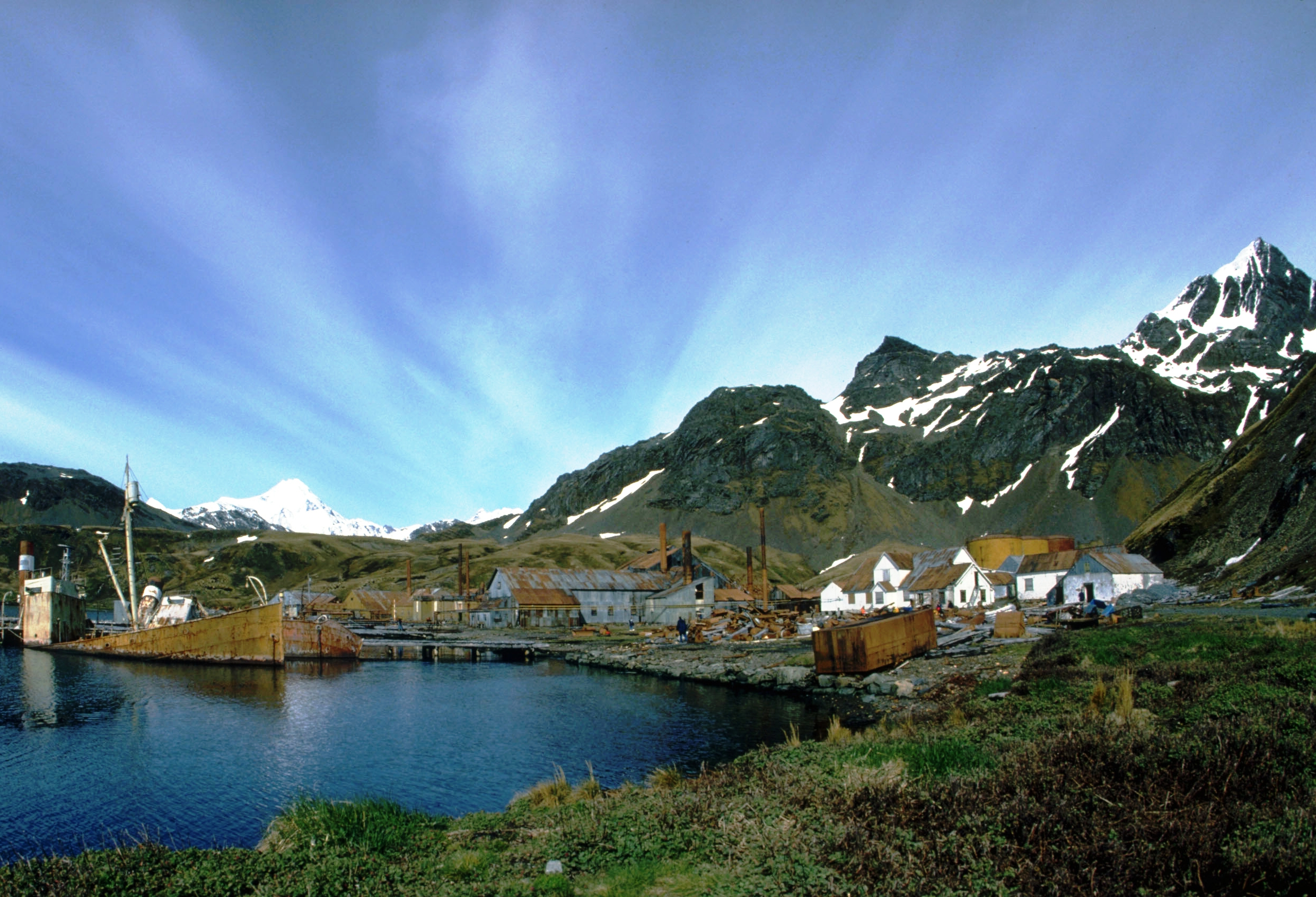 Grytviken at South Georgia , whaling station